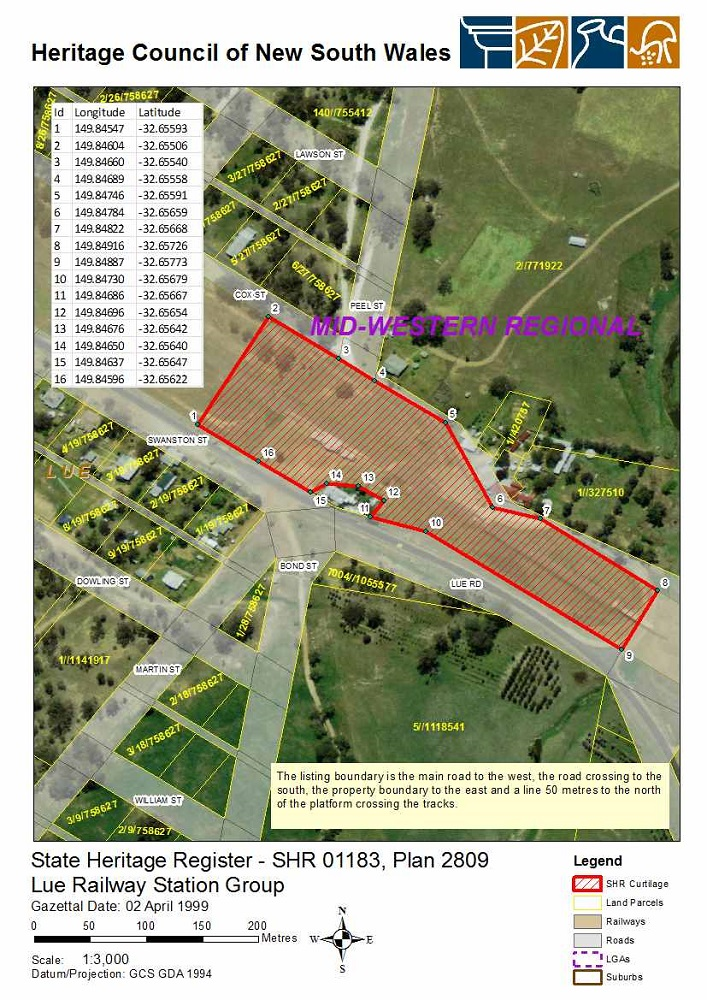 Lue railway station: SHR Plan No 01183